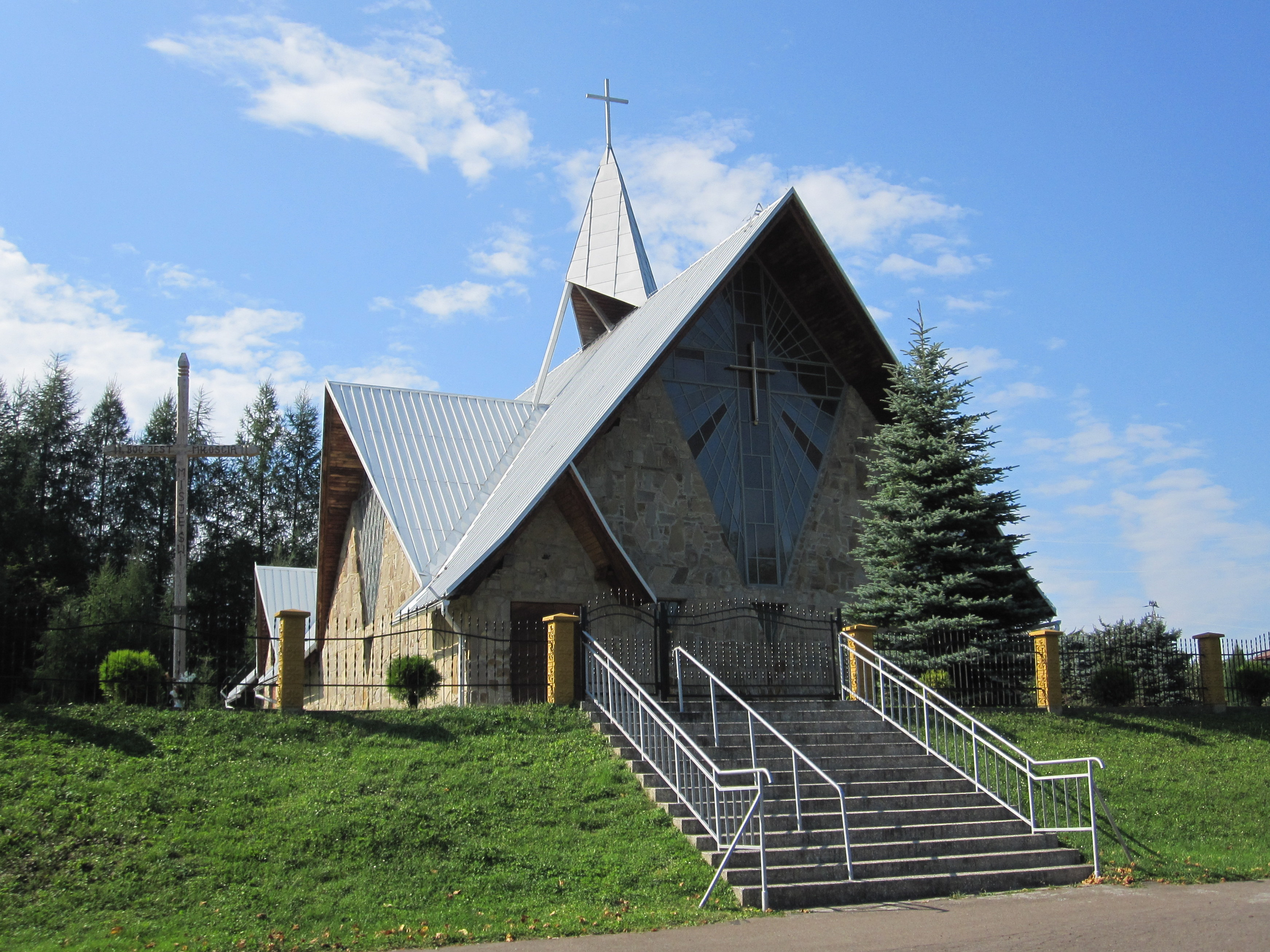 Church of the Blessed Karolina Kózkówna in the Bukowiec village